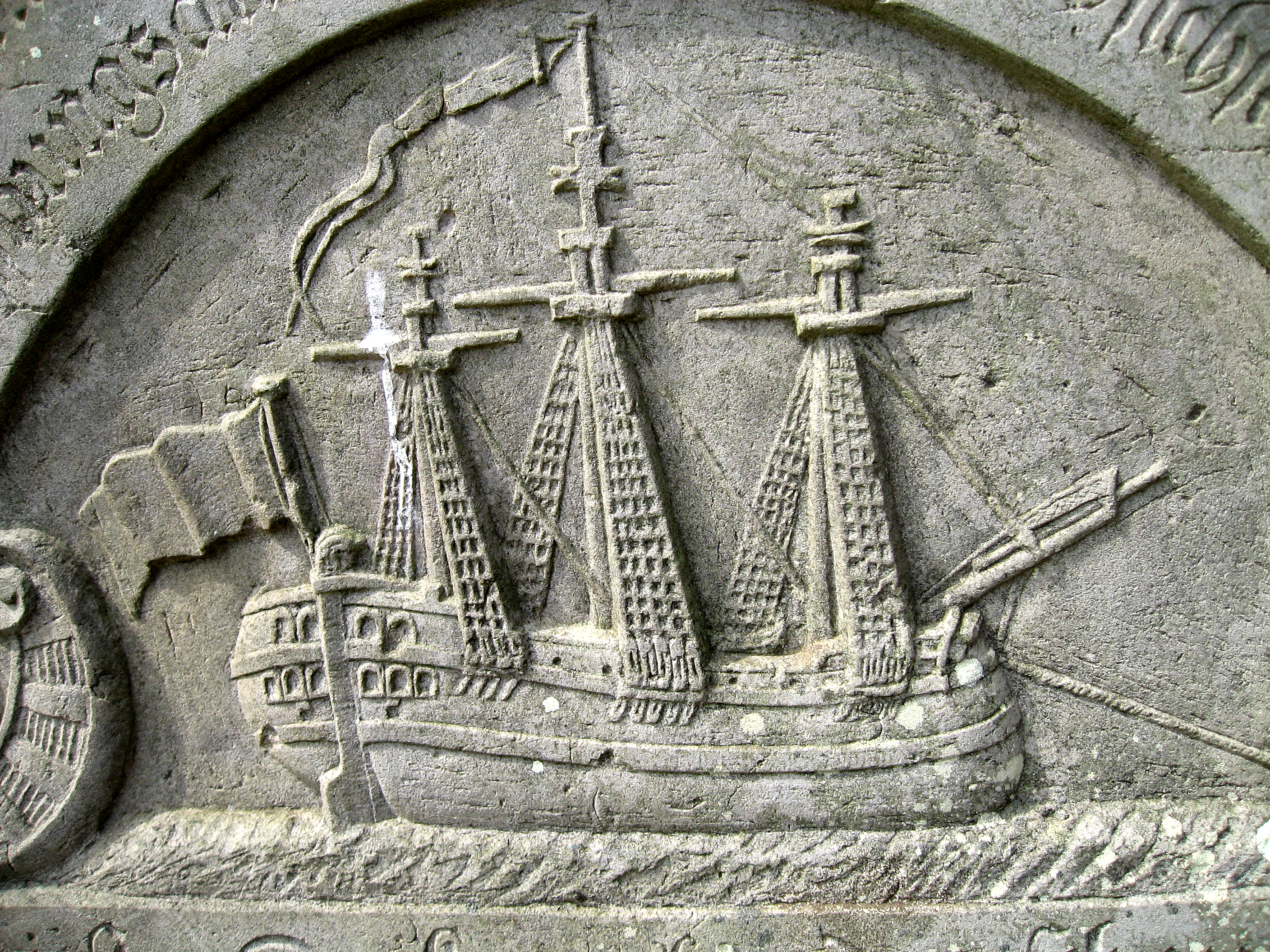 grave of a sailor, Germany, Amrum, Nebel